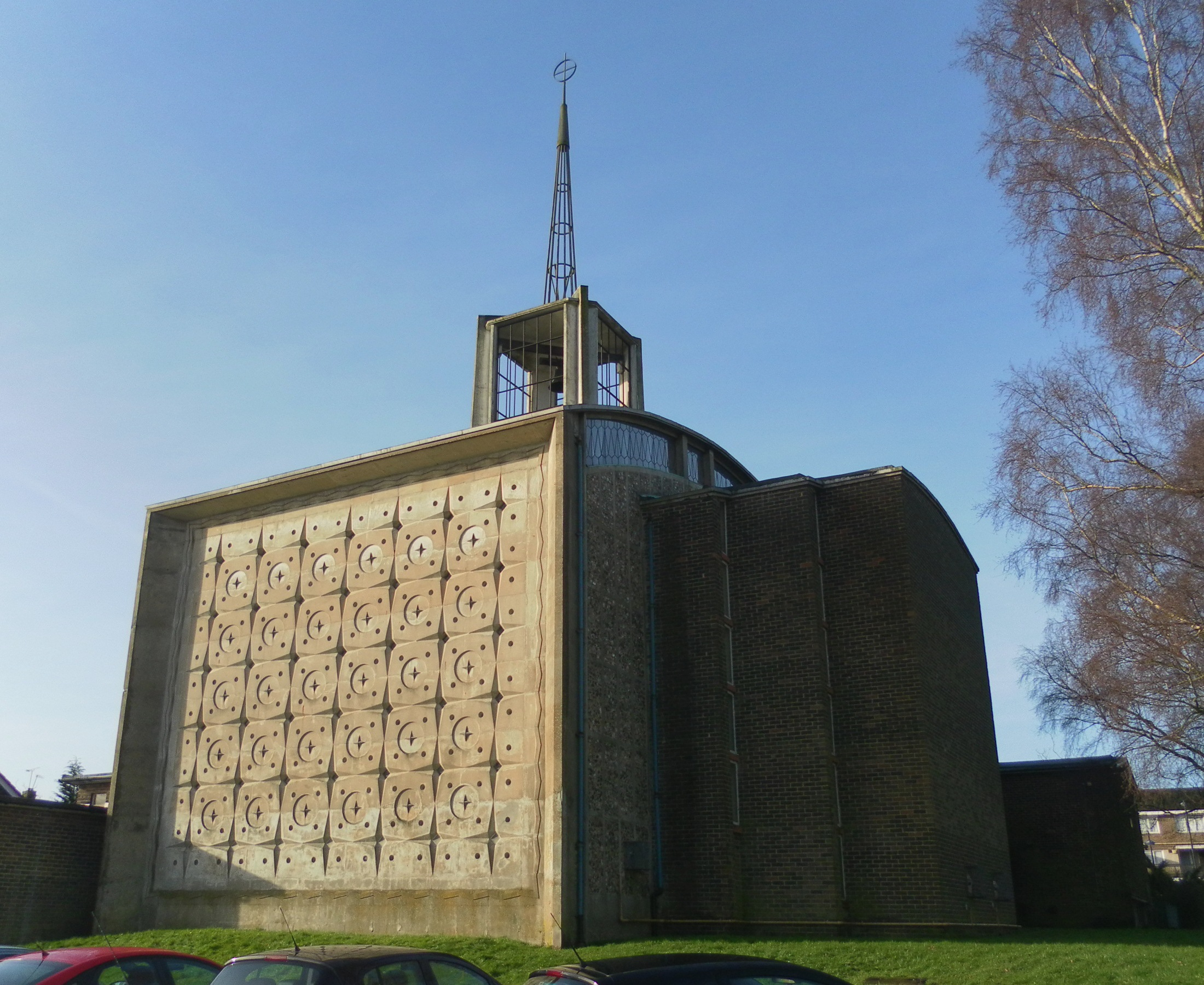 St Mary's Church, Wakehurst Drive, Southgate, Crawley, West Sussex, England. Built in 1958; now a locally listed building. This shows the rear elevation.